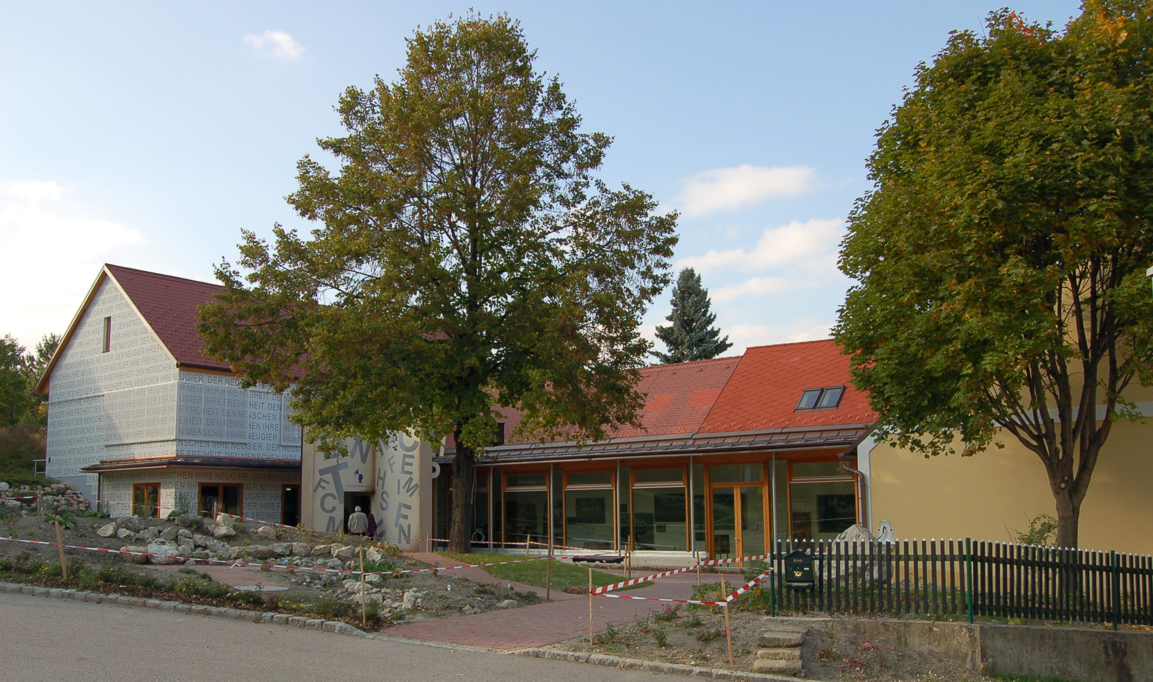 Lower Austrian School Museum, Michelstetten, municipality Asparn an der Zaya, Lower Austria